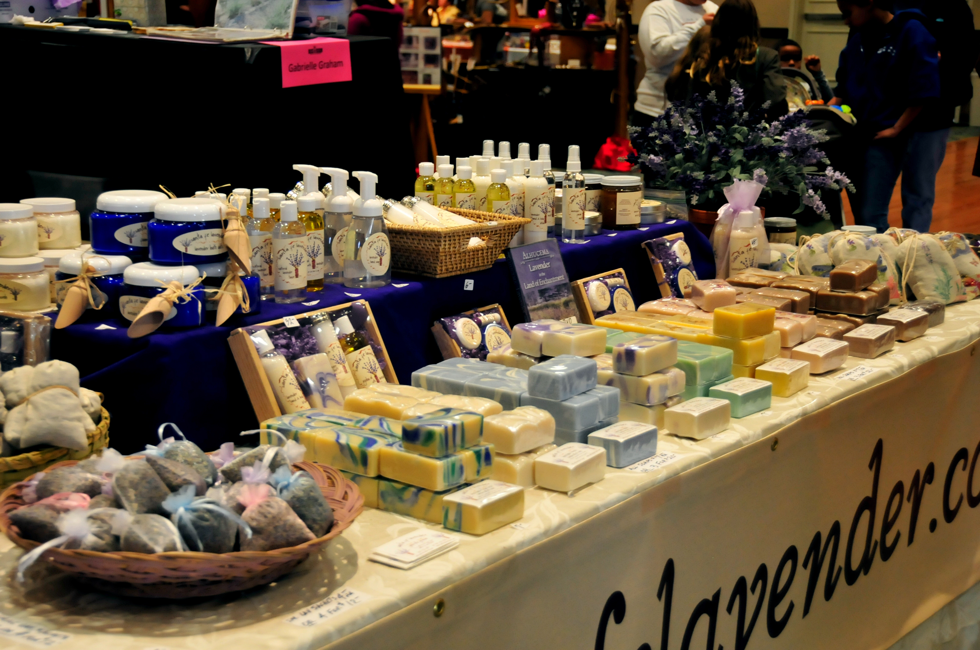 Locally grown products, antiques, jewelry, woodwork and specialty food items were available at the Bliss in Bloom event, April 14-15, at the Centennial Club. The event was the group's annual spring bazaar and is one of its main fundraising efforts of the year The money raised will go toward college scholarships for family members of Fort Bliss soldiers, as well as family members of Department of Defense employees at Fort Bliss, Texas. Grants will also be presented to various organizations in and around El Paso and Fort Bliss.